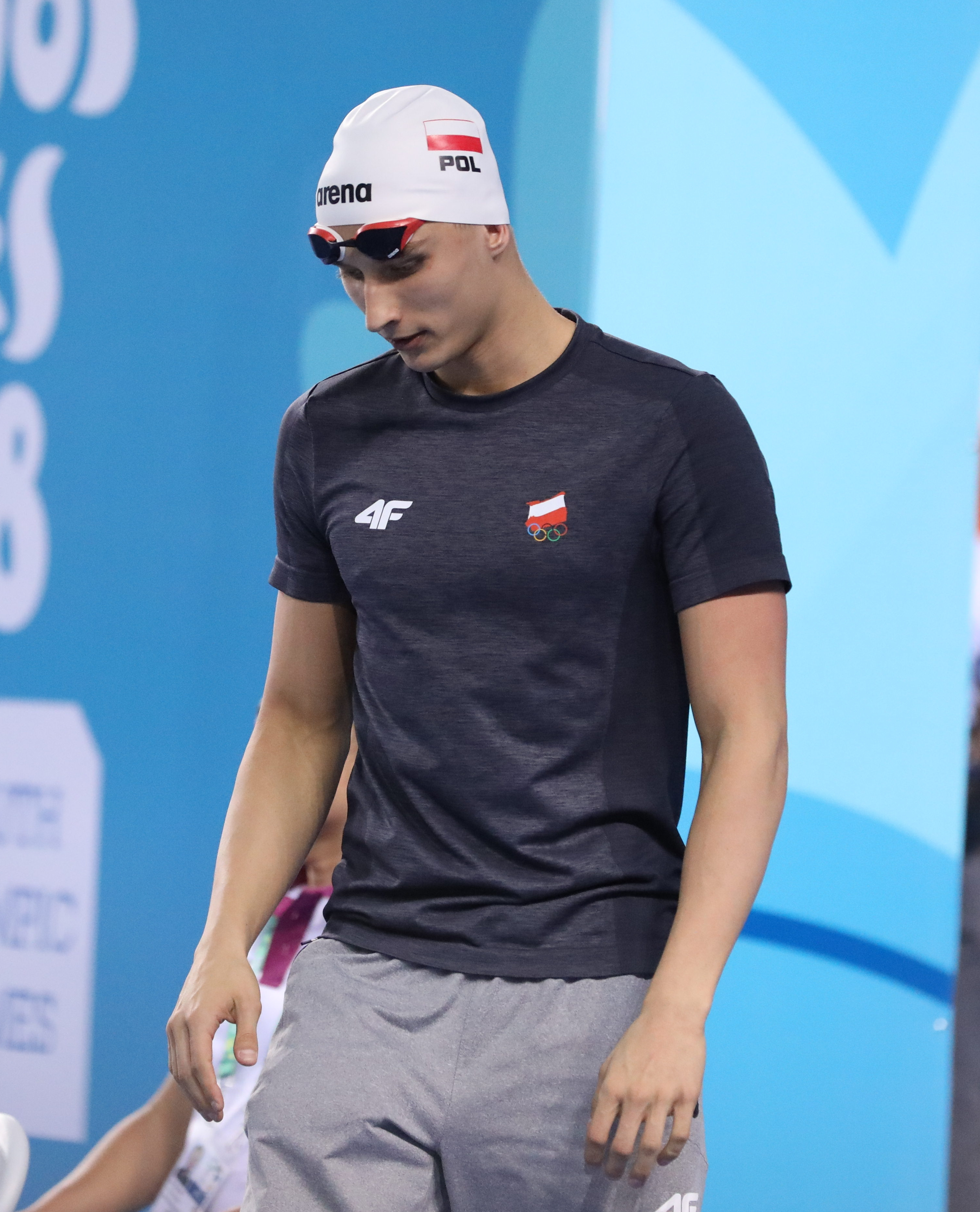 Boys' Swimming, 200 m Breaststroke Final at the 2018 Summer Youth Olympics in Buenos Aires at the 10th October 2018